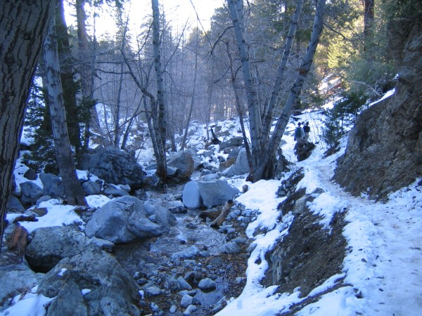 The Icehouse Canyon Trail in Angeles National Forest, Los Angeles and San Bernardino counties, CA, USA.